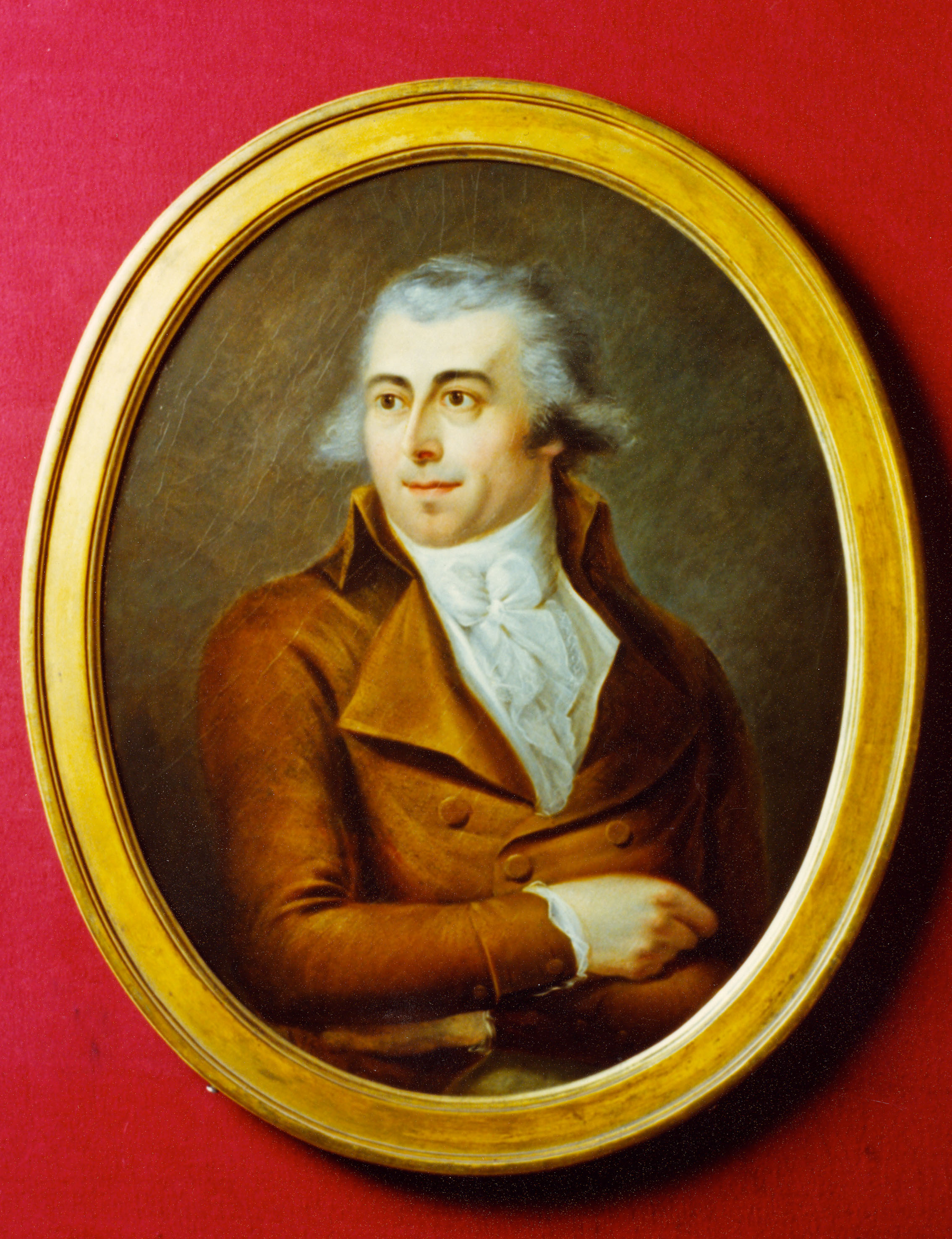 Christian Fueter was born in London in June 1752 and died in January 1844 in Bern. He was the last man in charge to print Bern's own money. More about Christian Fueter under under the chapter FAMILIE, Christian Fueter, Münzmeister